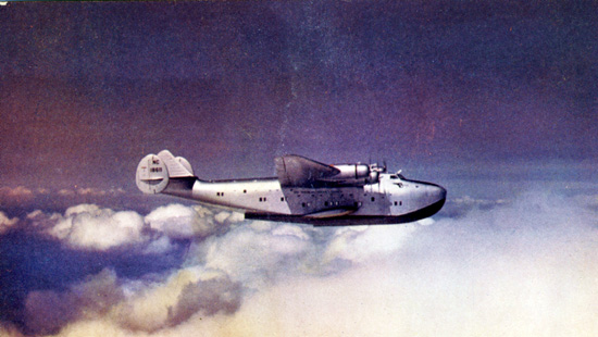 A Pan American World Airways Boeing 314 Clipper in flight.